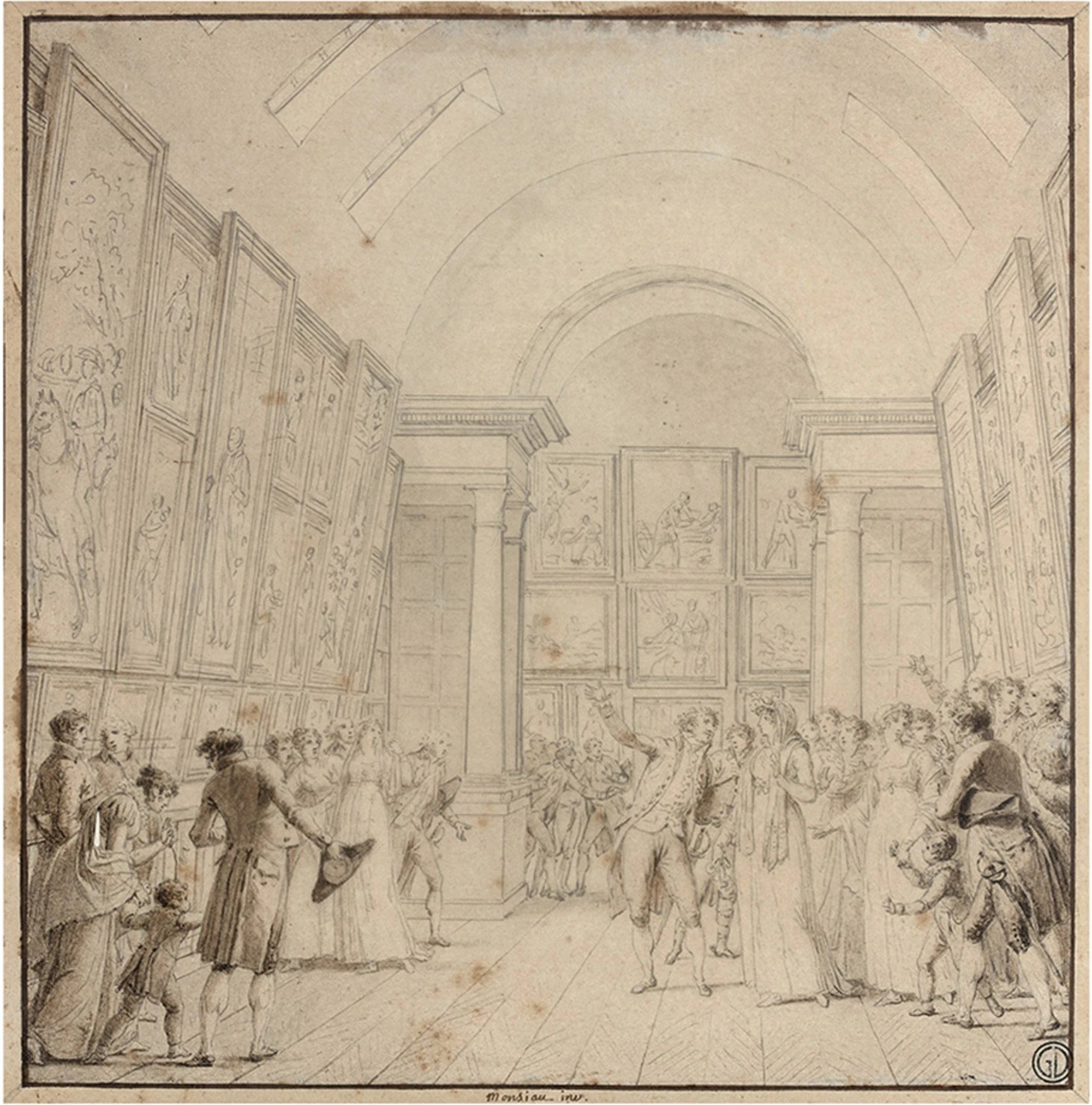 The Empress Joséphine, with Vivant Denon, visiting the Salon of 1808, drawing by Nicolas-André Monsiau